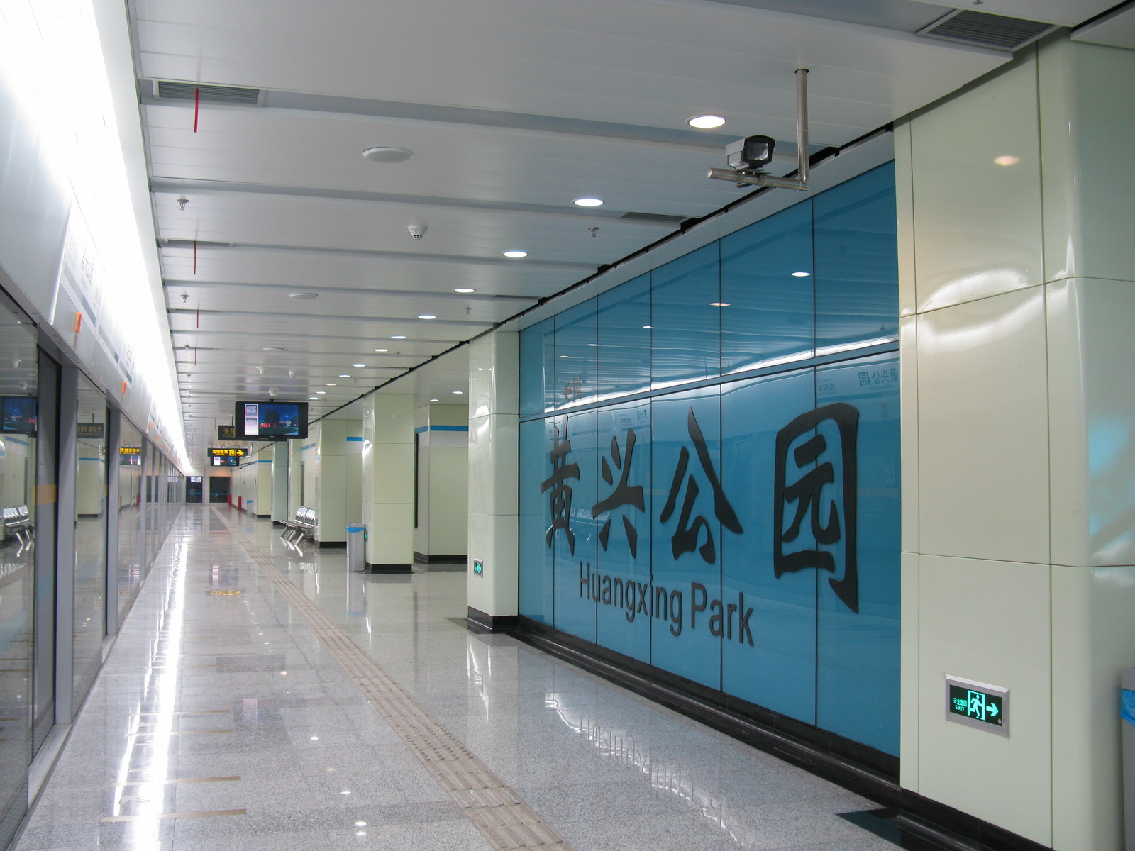 黃興公園站-8號線月台 Line 8 Platform of Huangxing Park Station